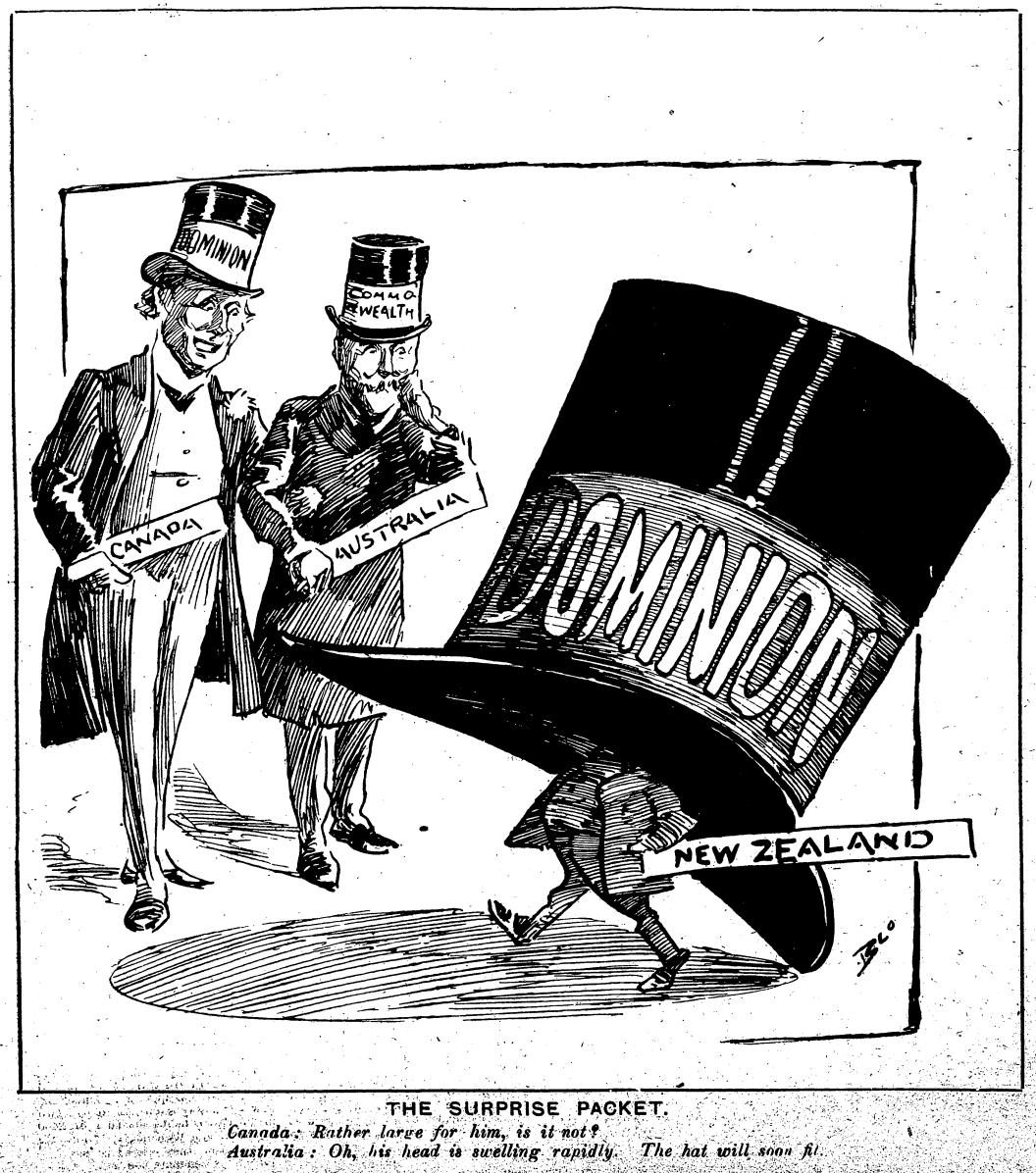 In this Dominion Day cartoon, Blomfield draws Prime Minister Joseph Ward as a pretentious dwarf beneath a massive ‘dominion’ top hat. "Rather large for him, is it not?" "Oh, his head is swelling rapidly. The hat will soon fit."